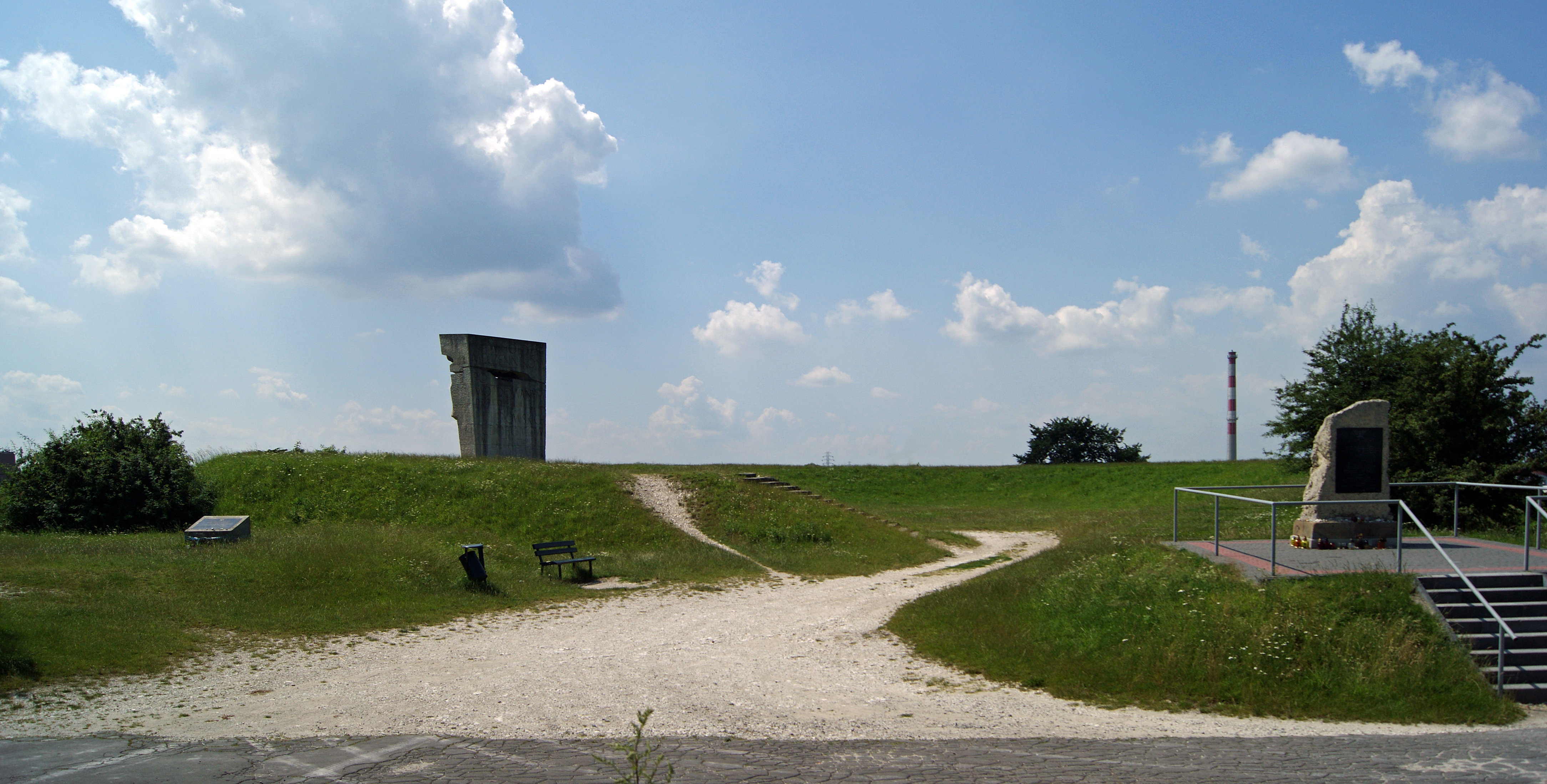 WWII, KL Plaszow, 1942-1945 German concentration camp for Jews (place of execution C-dołek), Kamieńskiego street, Podgórze, Krakow, Poland